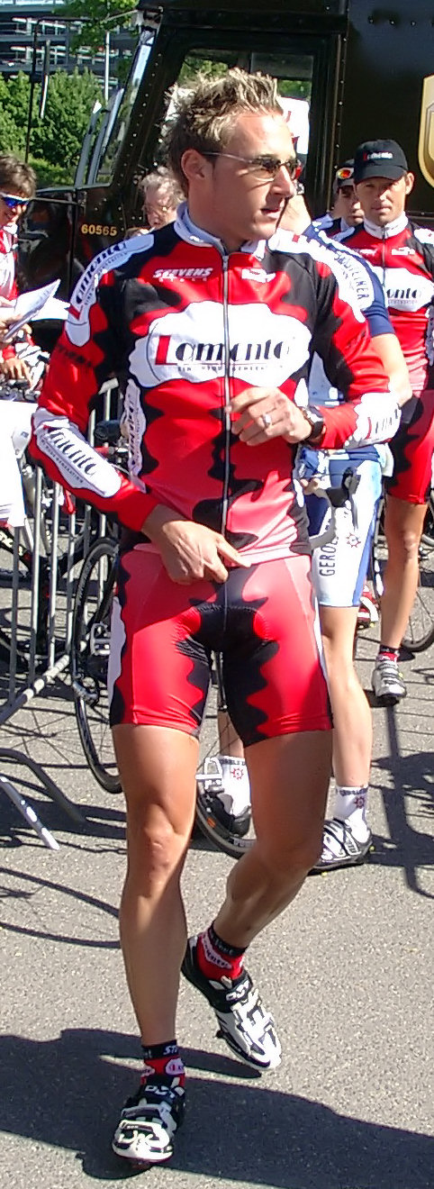 Björn Glasner at race in Cologne